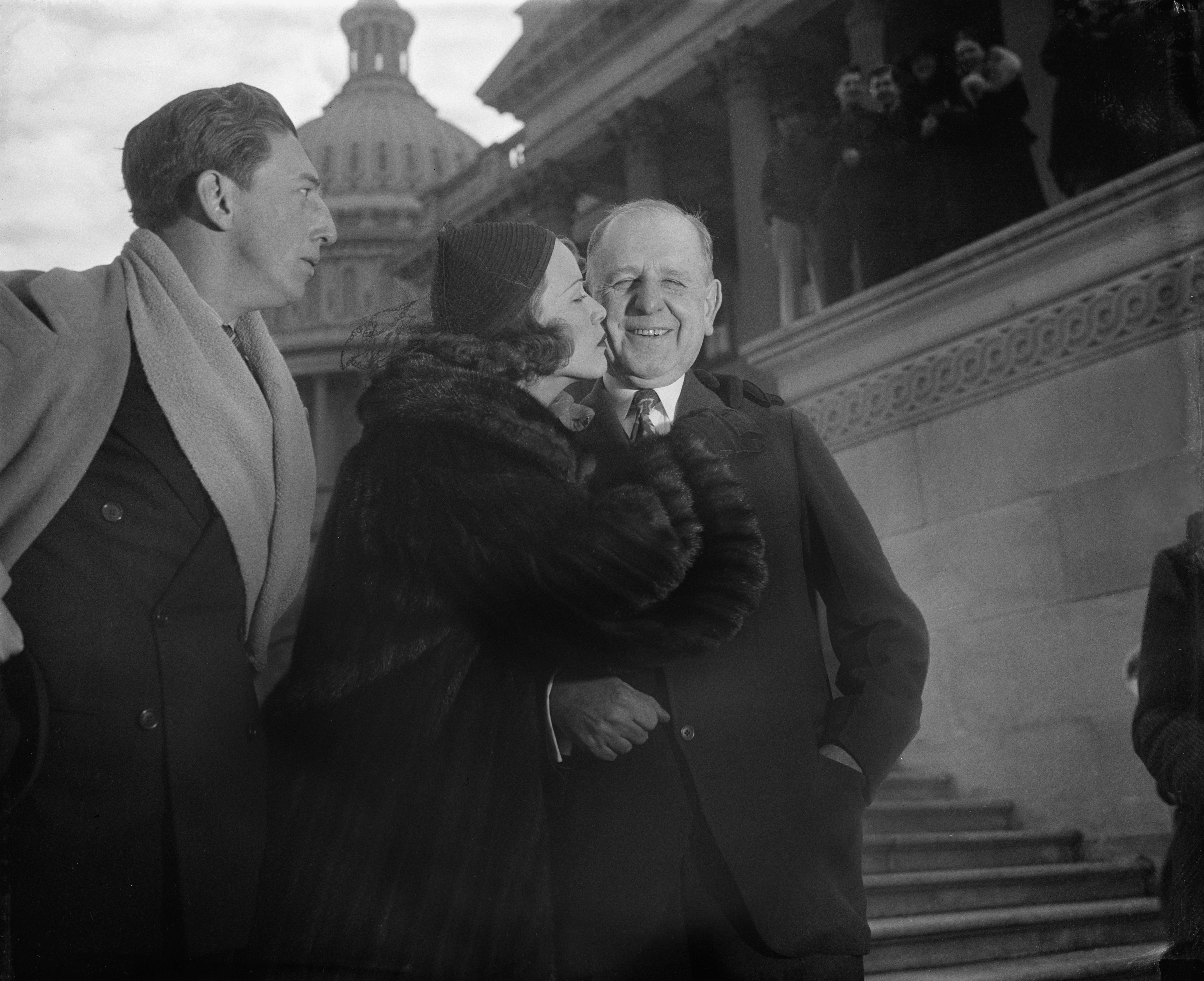 A movie kiss planted on Maryland Senator. Washington, D.C., Jan. 27, 1938. Following a reception by the Senators at the Capitol today, Eleanor Powell, movie and screen star, plants a daughterly goodbye kiss on the cheek of Senator George L. Radcliffe of Maryland. On the left is Ray Bolger, another dancing star, who with miss Powell will entertain patrons of the many Presidents' birthday parties in Washington this Saturday, 1/27/38